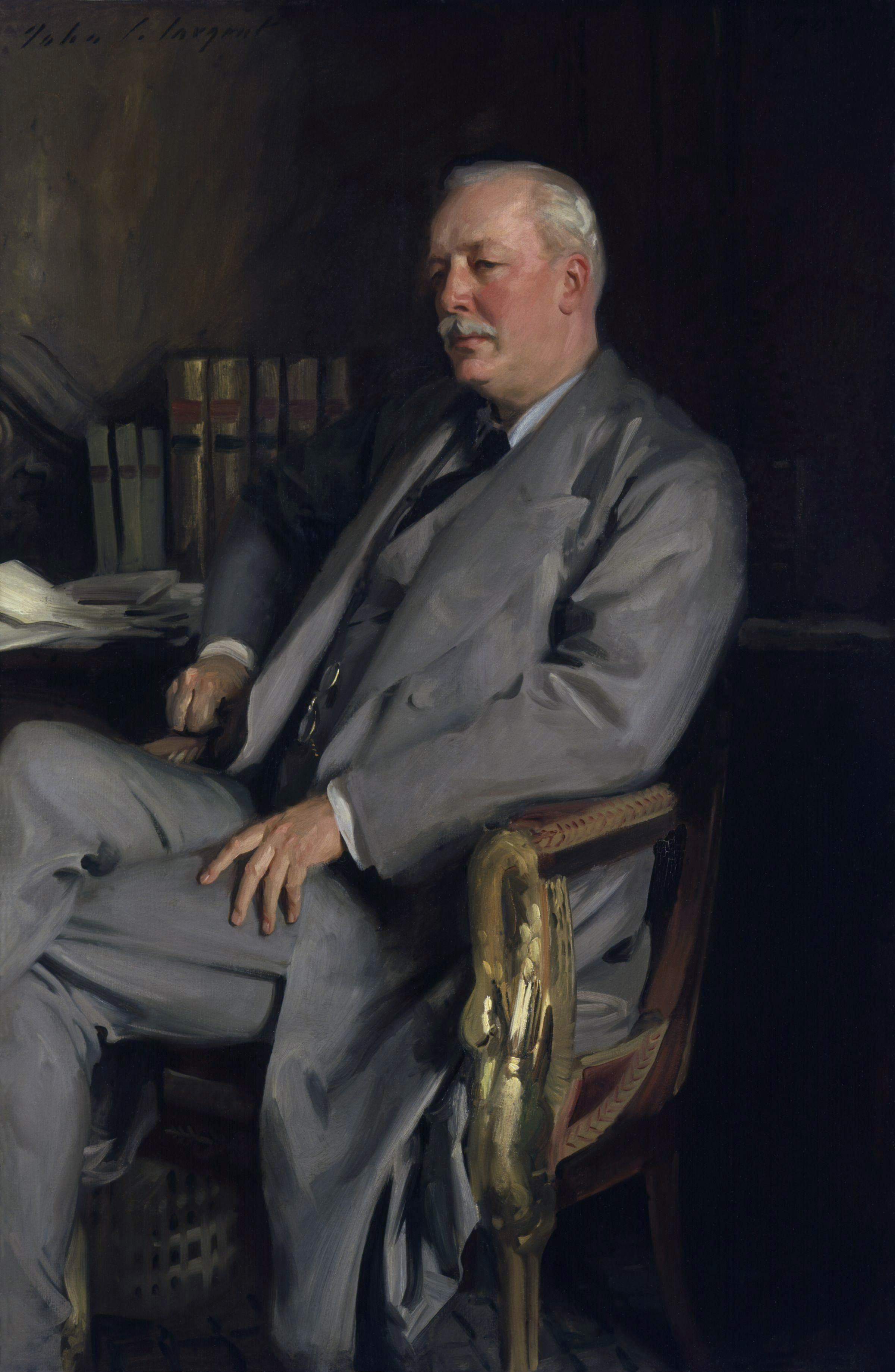 Evelyn Baring, 1st Earl of Cromer, by John Singer Sargent (died 1925). All images in this batch have been confirmed as author died before 1939 according to the official death date listed by the NPG.